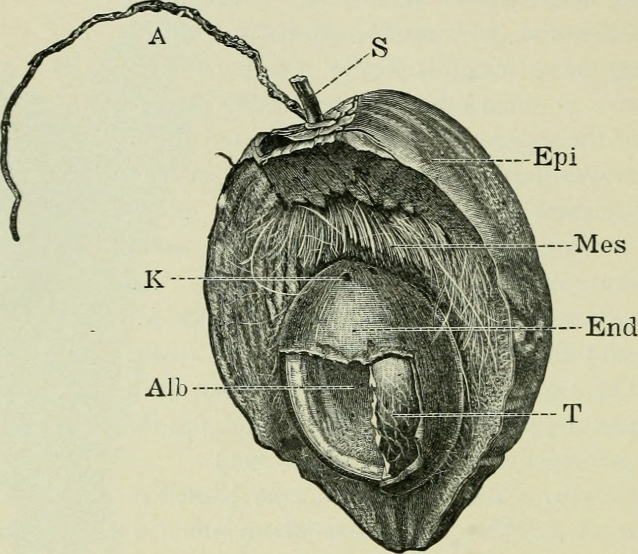 Title: Contributions from the New York Botanical Garden Year: 1899- (1890s) Authors: New York Botanical Garden Subjects: Plants Publisher: New York : The Garden Text Appearing Before Image: 324 KiRKWooD AND GiES : Chemical Studies in many of the confections, of civilized man all over the globe.* Immoderate use of the fruit, which according to the people of the tropics is highly refrigerant, causes, it is said, rheumatic and other diseases.t The milk is considered an agreeable cooling beverage in the tropics. It has been known for some time that irritation of the mucous membrane of the bladder and urethra is caused by drinking too freely of the cocoanut milk.^ It is strongly Text Appearing After Image: Fig. 3. Ripe cocoanut. .5", lower part of axis forming the stem ; A, upper end of axis with scars of male floweis ; Epi, epicarp ; Afes, mesocarp with fibers ; End, endo- carp or hard shell; T, portion of testa adhering to endosperm ; Alb, endosperm sur- rounding cavity of the nut ; K, germinating eye. X \- Winton. diuretic. Parisi has used the cocoanut therapeutically as an an- thelmintic with uniformly satisfactory results. § He states that the meat of the nut is a powerful taenicide, the milk sharing the prop- *In the Annals of the New York Academy of Science, 13: 490, 1900-1901, the following may be found : " Dr. Gies in answer to a question stated that the food content of the cocoanut is small." This answer is quoted incorrectly. The question referred to the nitrogenous food content. It was stated on that occasion that the ** content oip'roteid food-stuff is small." See page 340. t Pavy: A Treatise on Food and Dietetics physiologically and therapeutically considered, 488. 1878. (Curtis: Annals" of the New York Academy of Sciences, 13: 490. 1900-1901. \ See Liebreich : Encyklopaedie der Therapie, i : 744. 1896.